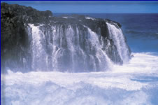 View of the waves crashing on the cliffs at Gris-gris.